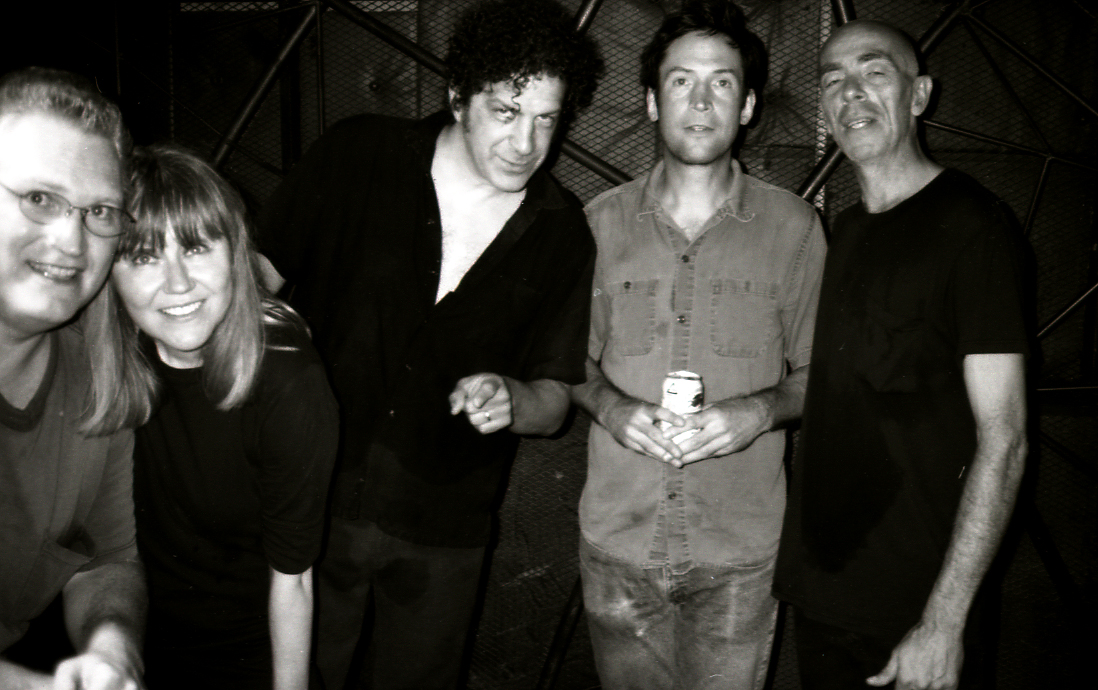 aug. 2009 Shelter , Tokyo. NYC's finest garage band.